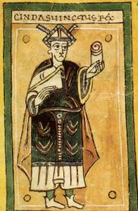 From the Códice Albedense.